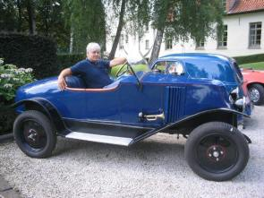 Renault type MT